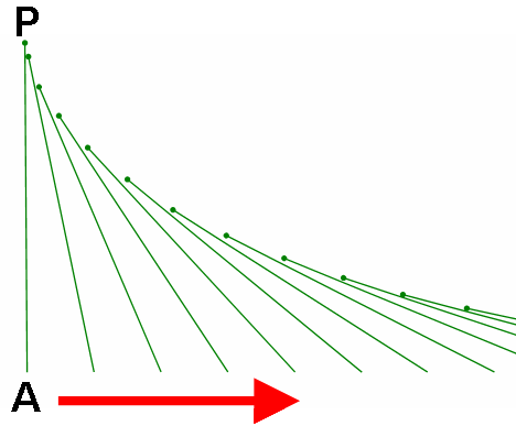 a diagram intended to explain the tractrix curve concept